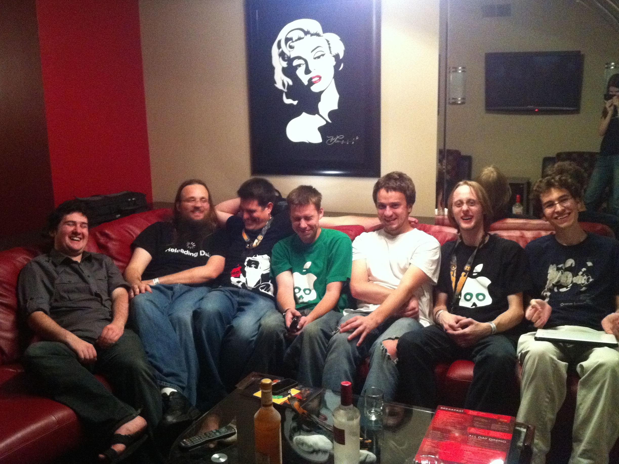 A photo of several people involved in the iOS jailbreaking community, including saurik, p0sixninja, and geohot, who have contributed to building jailbreaking tools such as AppSnapp, greenpois0n, Absinthe, purplera1n, blackra1n, limera1n, and others. Taken during Def Con 2011. Note about personality rights for this photo for limited uses: this photo (and nearly identical photos taken at the same time by the same person with different phones) has already been publicly published, including on the Twitter accounts of two of the people in the photo, and on blog posts like this one.